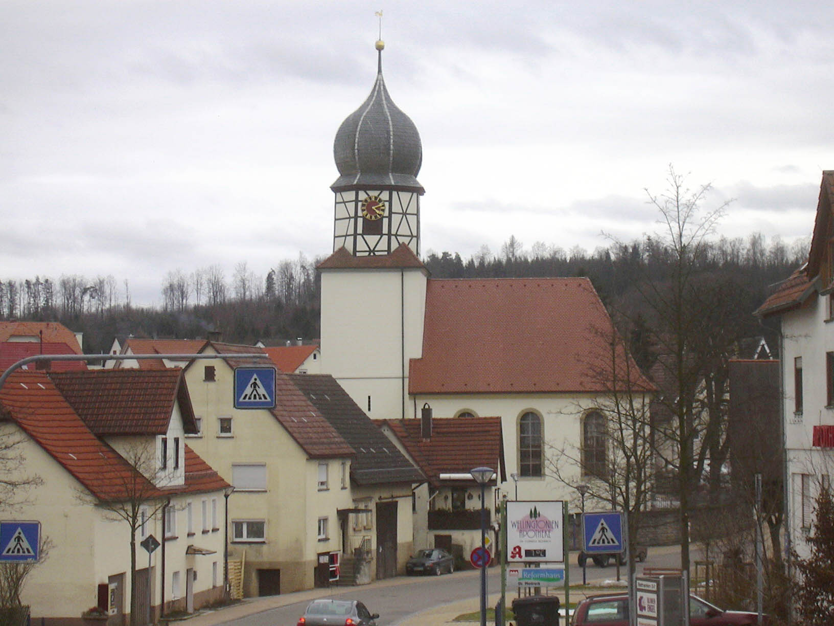 Kilian church in Wüstenrot, Germany